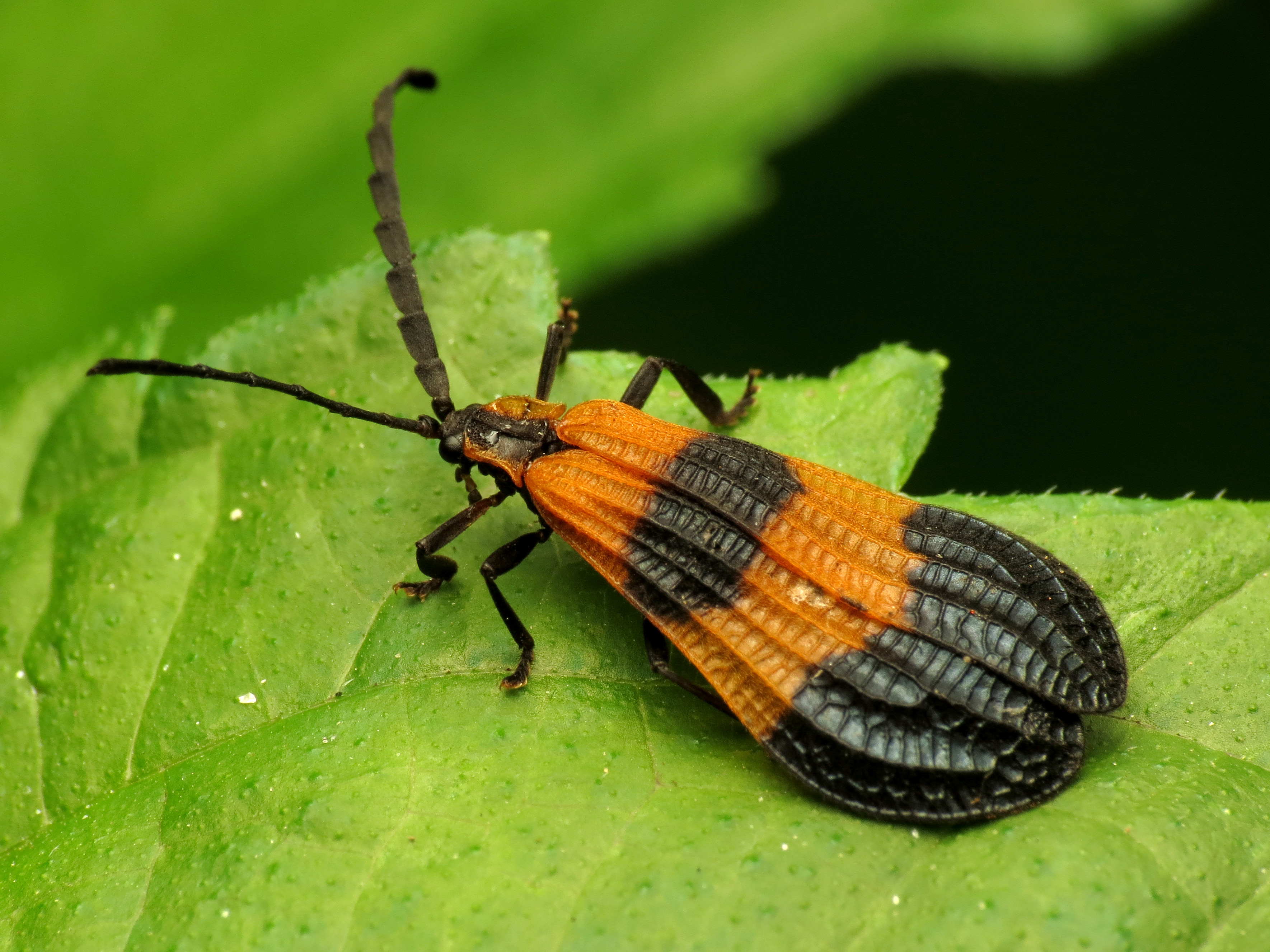 Calopteron terminale. Rock Creek Park, Washington, DC, USA.